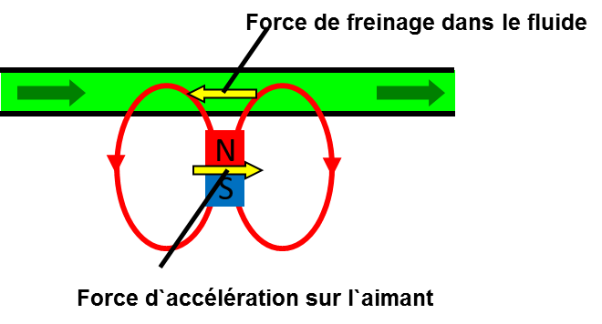 Principe de la Vélocimetrie - Force de Lorentz